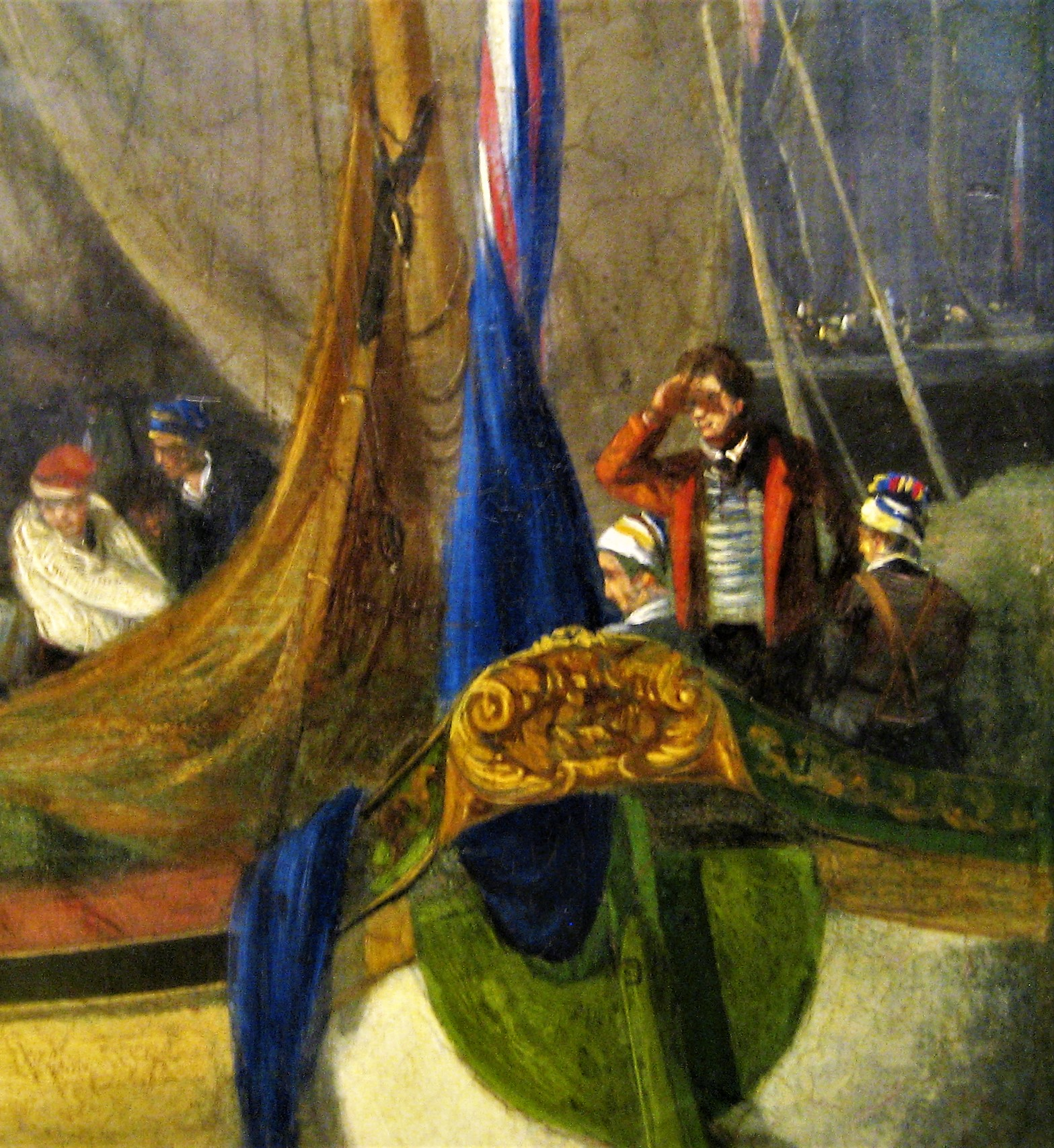 detail showing a self portrait of Joseph Stannard within his masterpiece